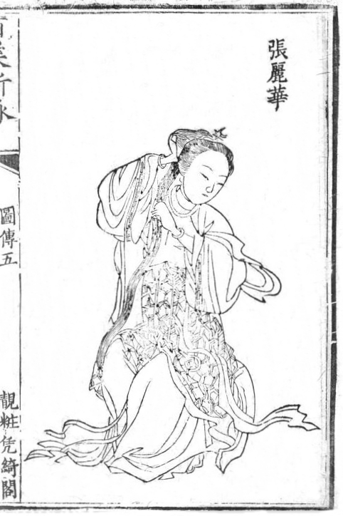 Image of Zhang Lihua, from the 18th century work Hundred Poems of Beautiful Women Zhang Lihua (Bai Mei Xin Yong Tu Zhuan 百美新詠圖傳) by Yan Xiyuan (颜希源) Woodblock print of drawing by Wang Hui 王翙